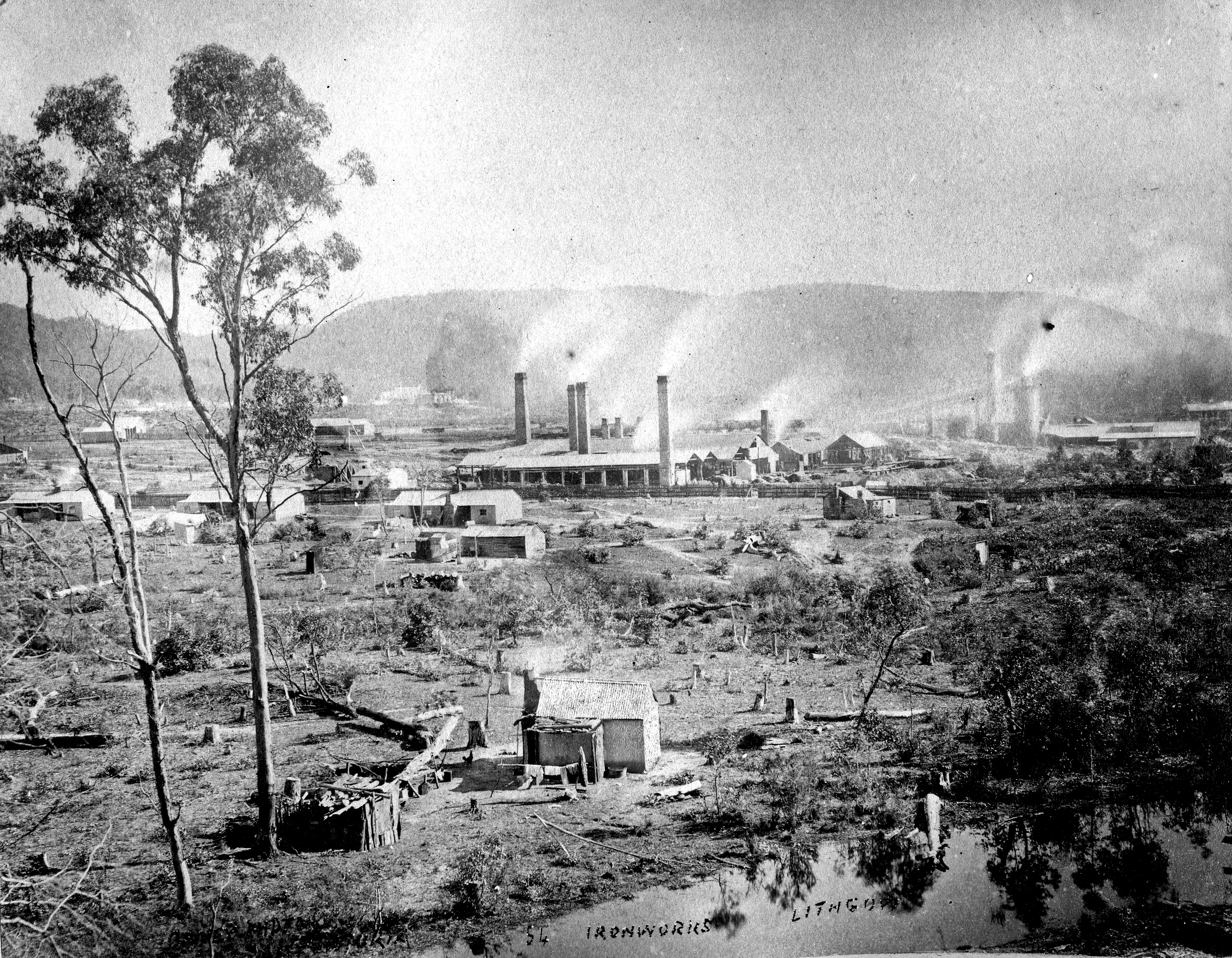 Notes: title from album page, actually the copper smelter and steel works. In October 1875 iron smelting began in Lithgow under the direction of Enoch Hughes. The foundry was erected on Thomas Brown's Esk Bank property where ore was found just beneath the surface of the ground. Hughes successfully encouraged James Rutherford of Bathurst, a principal shareholder and manager of Cobb and Co., Dan Williams a Canadian railway engineer who had worked on the Zig Zag and the Honourable John Sutherland the Minister for Public Works to join him in this steel making venture. By the end of 1876 the blast furnace was producing over 100 tons of pig-iron per week. Following coal mining and iron smelting, the third industry to develop in the Lithgow region was Copper Smelting. The first smelting in the area was undertaken by a Welshman by the name of Lloyd with ores won at Wiseman's Creek and smelted from the coal slack from Thomas Brown's colliery. Two further copper plants were also to develop in the area; the first in 1876 by the tobacco magnate Thomas Saywell and the second formed in 1895 by the Cobar Syndicate. Format: albumen photo print, Caney studio no. 54, 195 mm x 150 mm Date Range: c.1880 Licensing: Attribution, share alike, creative commons. Repository: Blue Mountains City Library .au/client/en_AU/default/ Part of: Local Studies Collection Provenance: High McBroom Links